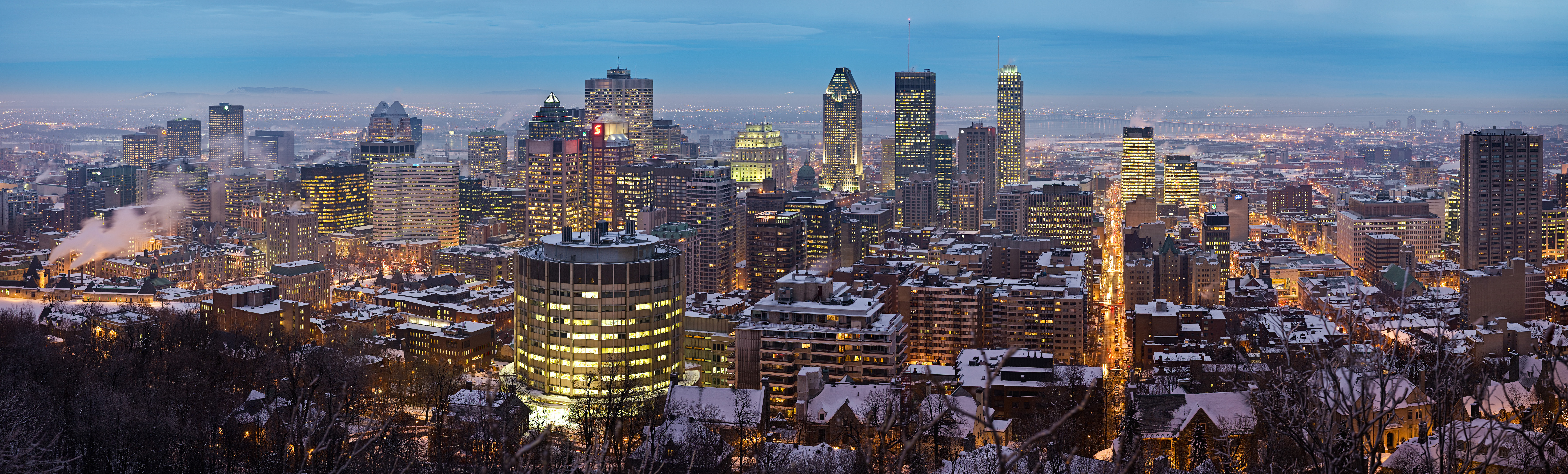 A panorama of the city, taken from the Chalet du Mont Royal at the top of Mount Royal in Montreal. It is a 3x5 segment panorama taken with a Canon 5D and 24-105mm f/4L IS at 105mm and f/8. Each exposure was around three seconds.